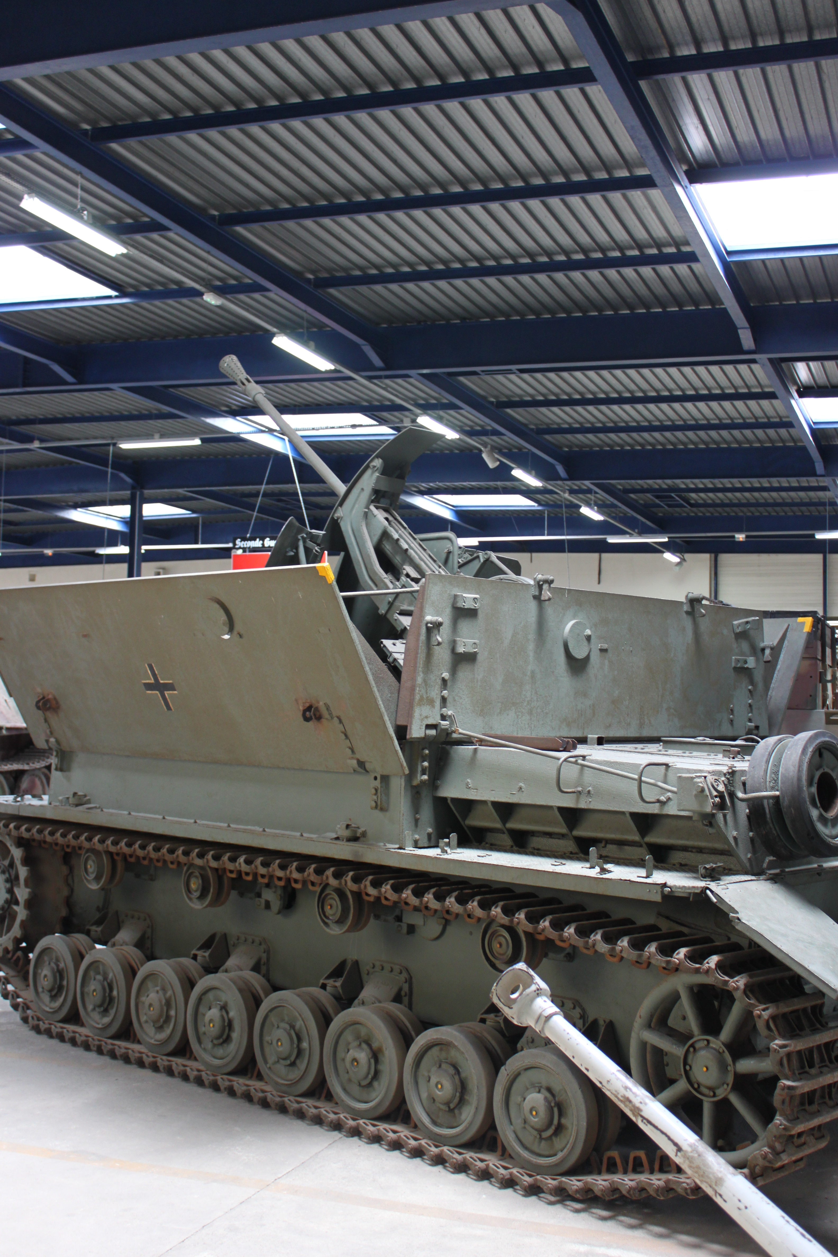 German tank "Flakpanzer IV" (WW II) at the "Musée des Blindés" in Saumur (France)